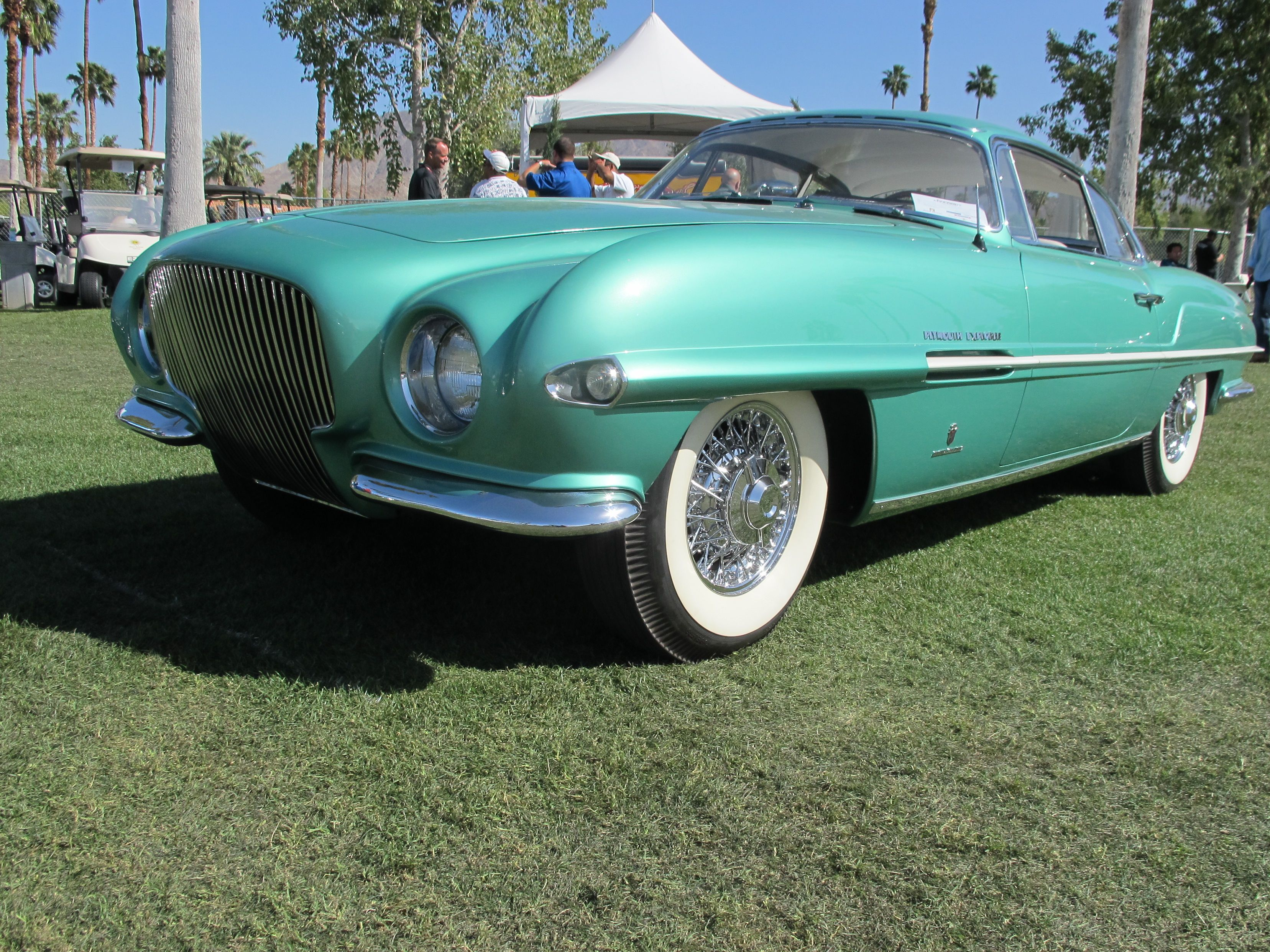 1954 Plymouth Explorer concept car by Ghis owned by the Petersen Museum